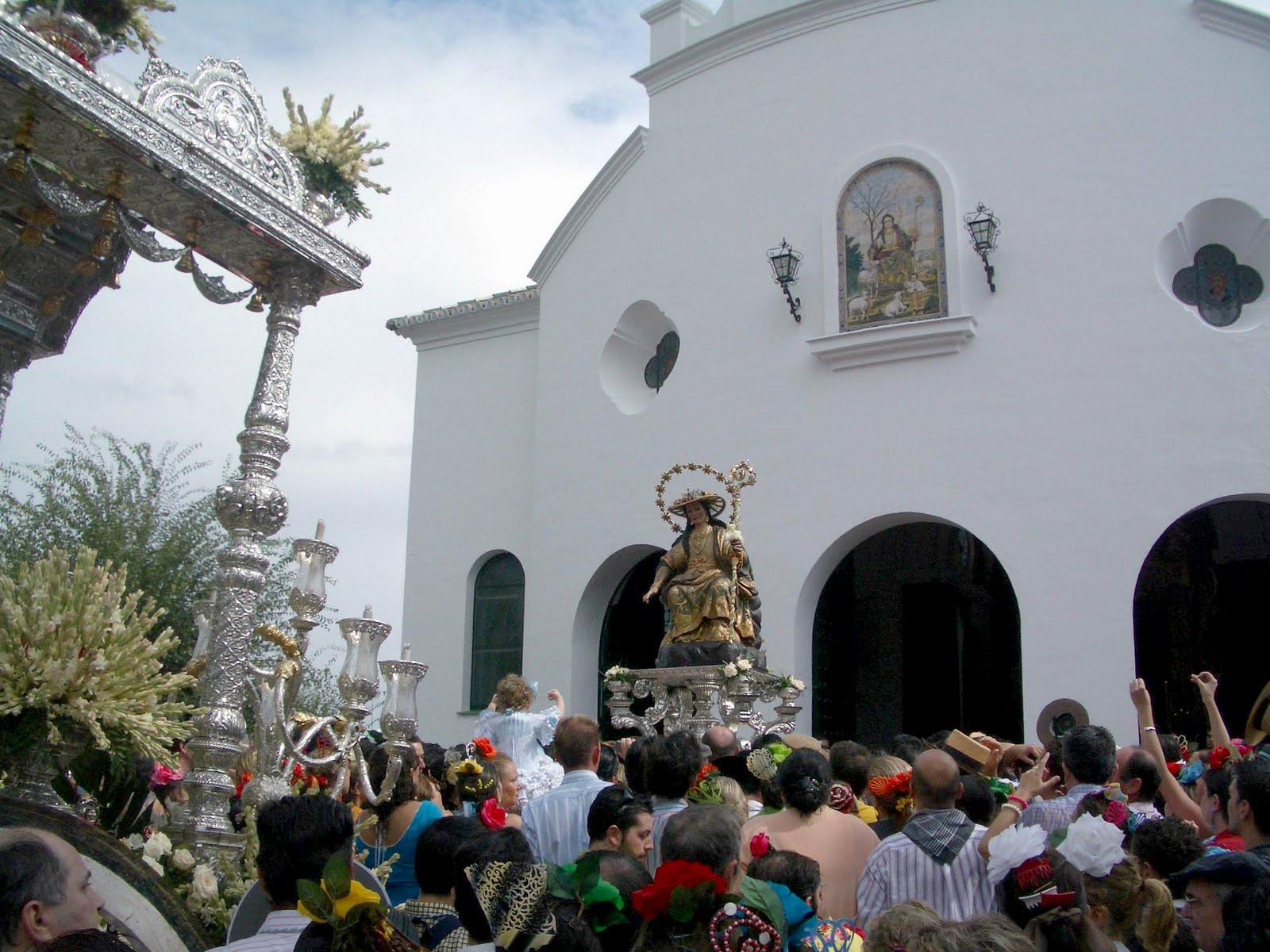 Romería de la Divina Pastora